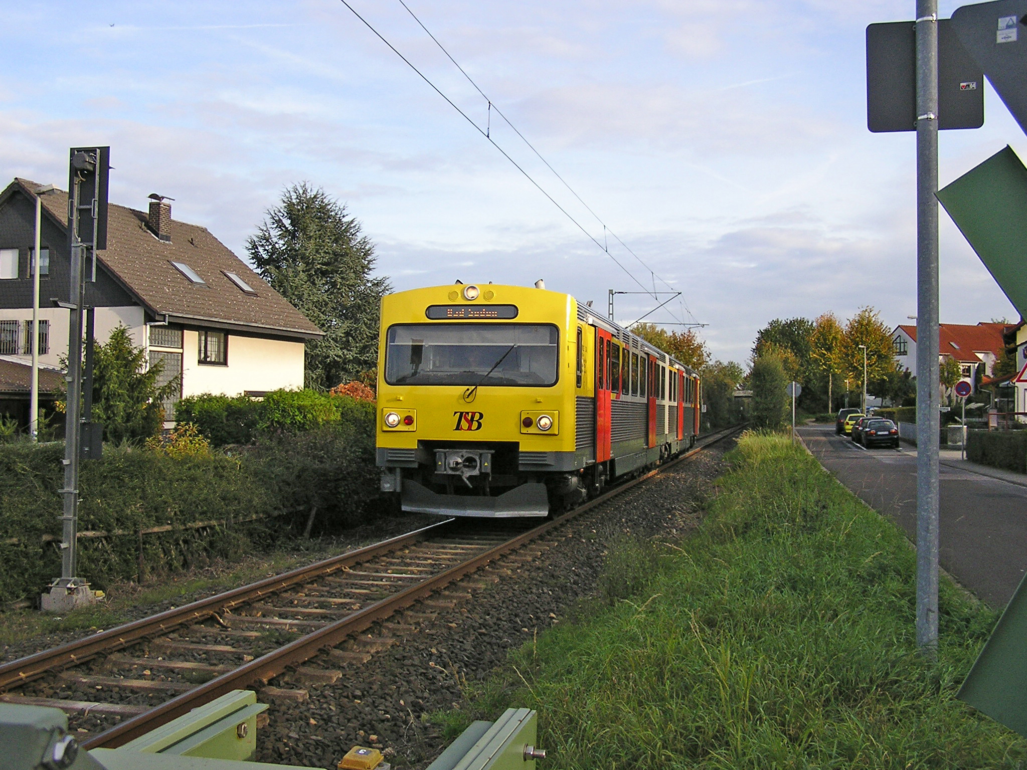 VT 2E of the Hessische Landesbahn on the Sodener Bahn